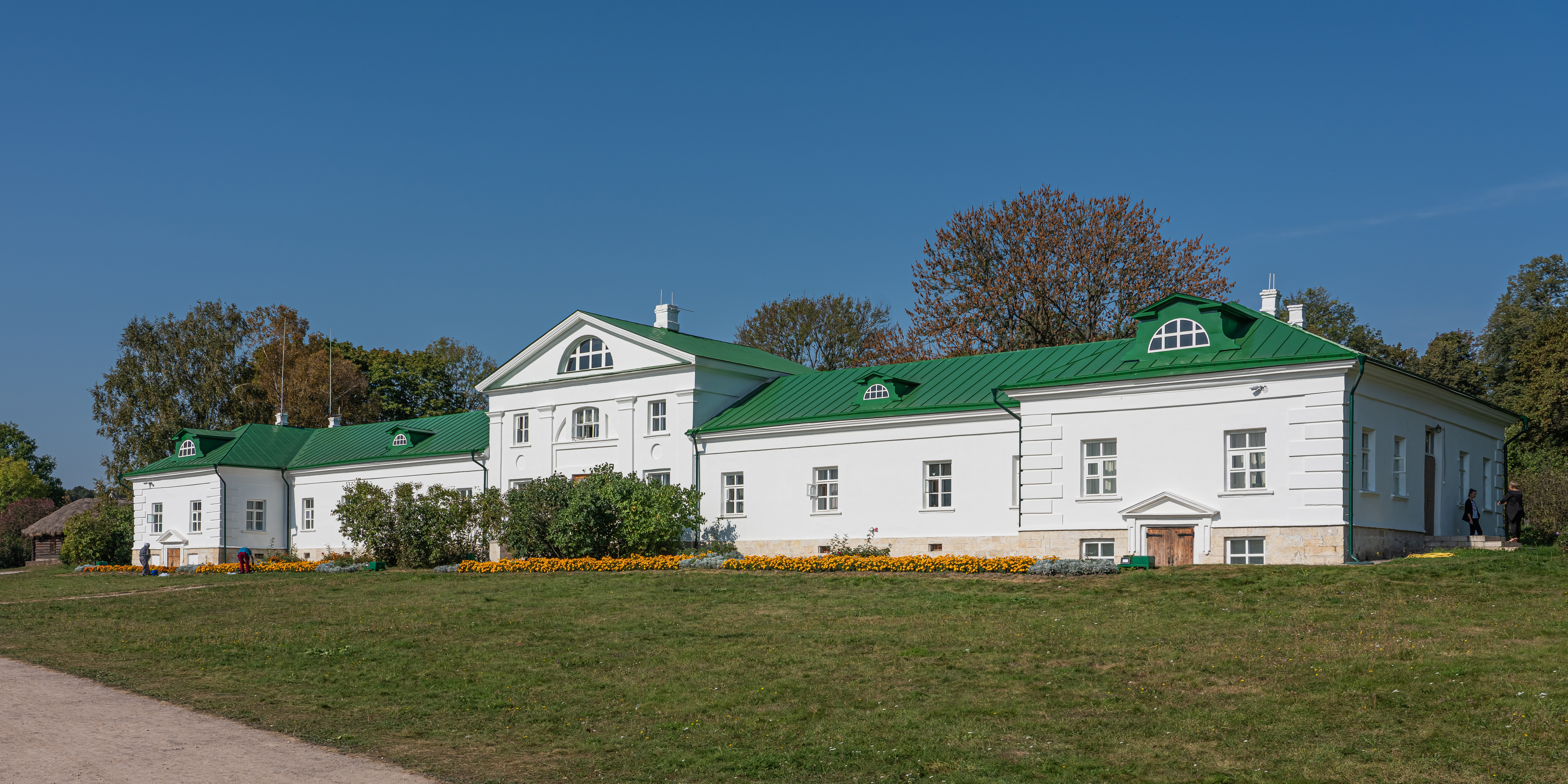 Volkonsky House in Yasnaya Polyana estate near Tula, Russia